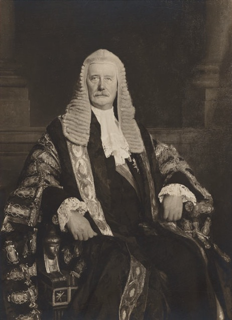 Portrait of George Cave, 1st Viscount Cave (1856-1928)